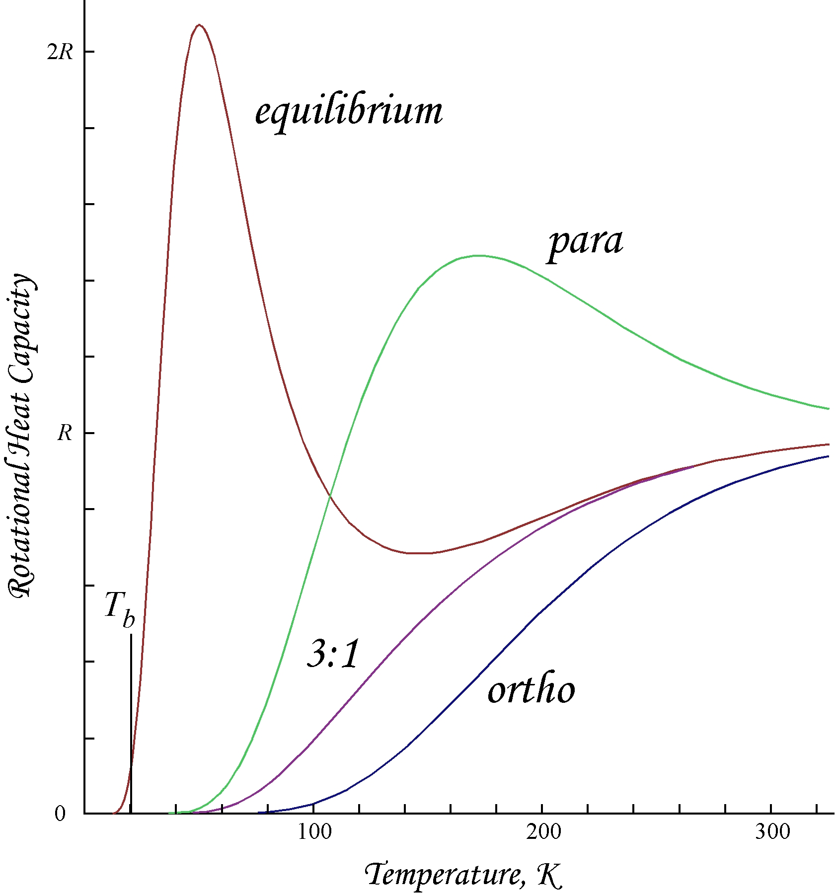 The molar heat capacities of ortho- and parahydrogen and two significant mixtures. The equilibrium mixture is that obtained when a catalyst is present to allow for ortho-para interconversion. 3:1 is the ortho:para ratio at room temperature that will persist if no catalyst is present during cooling.